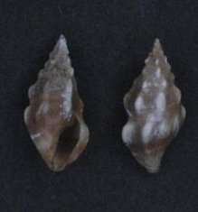 Clavus beckii (Reeve, 1842); family Drilliidae